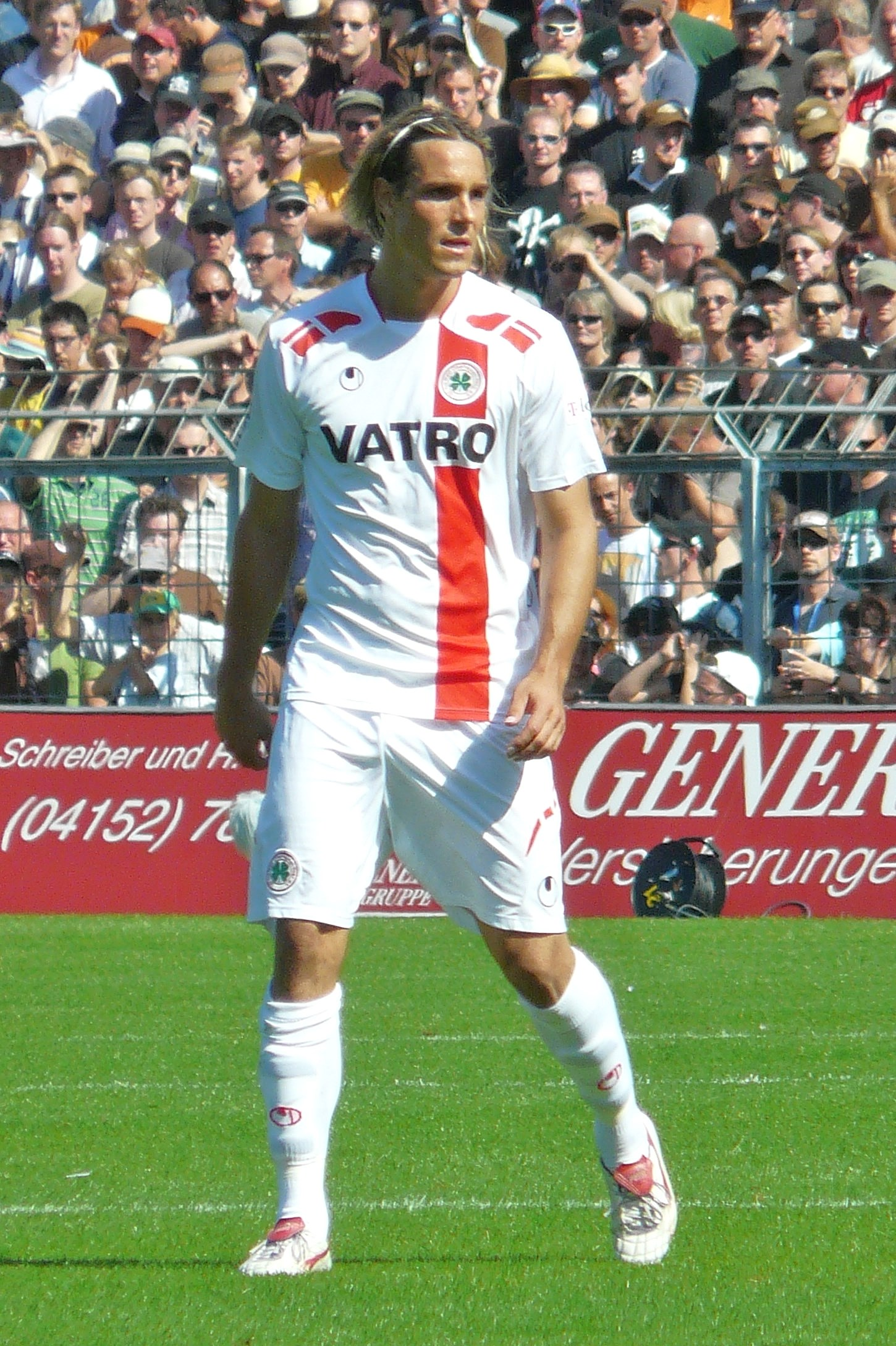 Felix Luz as PLayer from Rot-Weiß Oberhausen